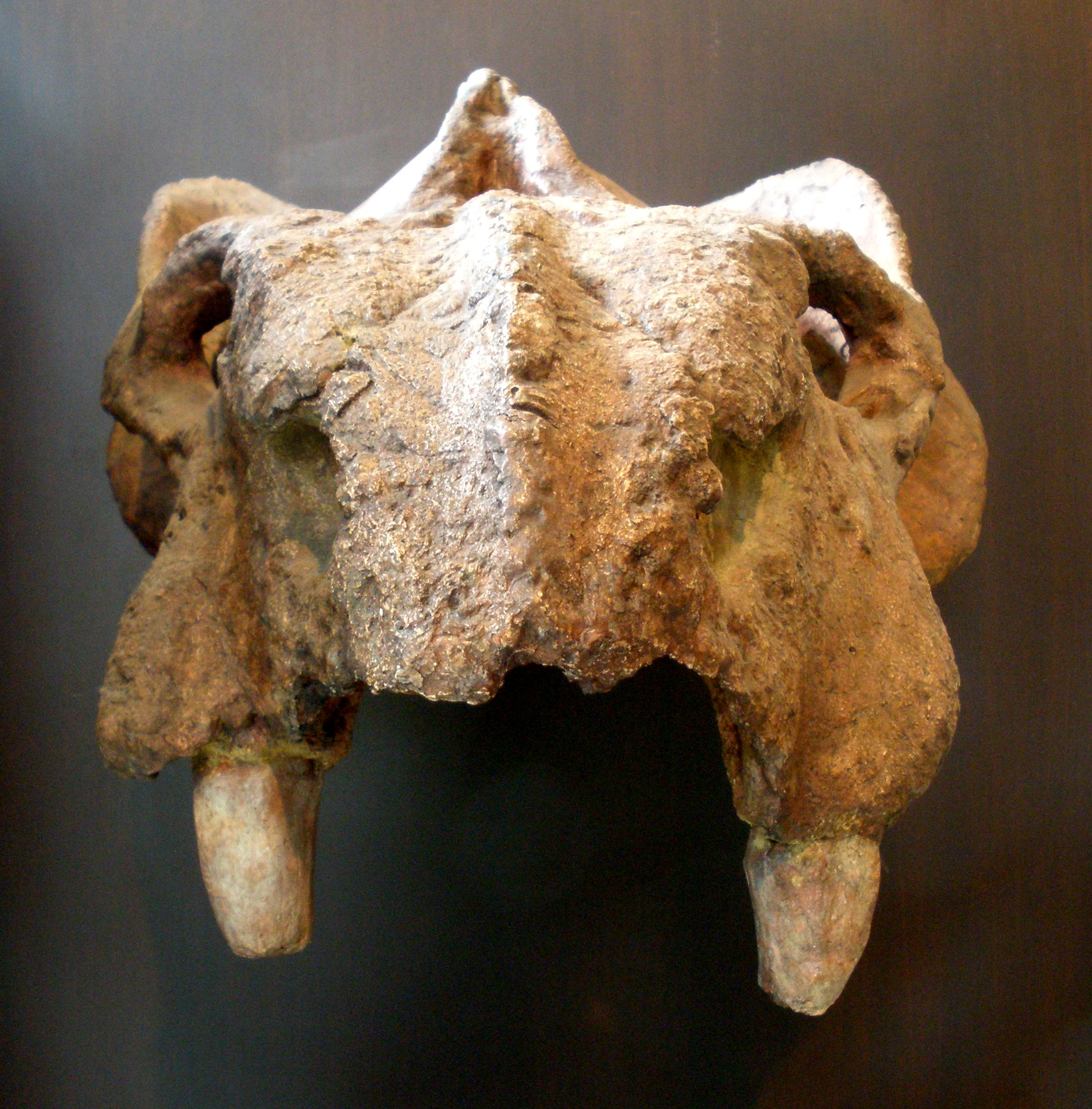 Skull of Kannemeyeria erithrea, a fossil fish